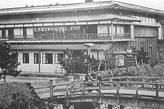 Hakodate Nyokoba(girls' school)